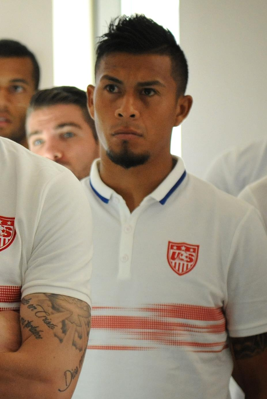 Aron Johannsson and members of the U.S. men's national soccer team visit wounded warrior at Walter Reed National Medical Center in Bethesda, Md., Sept. 3, 2015. DoD photo by Marvin Lynchard